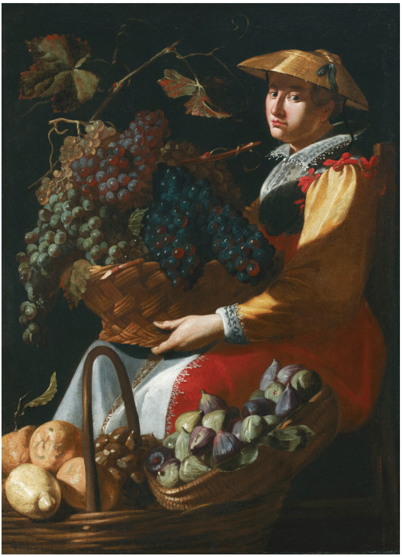 A lady selling fruit, including figs, lemons and grapes